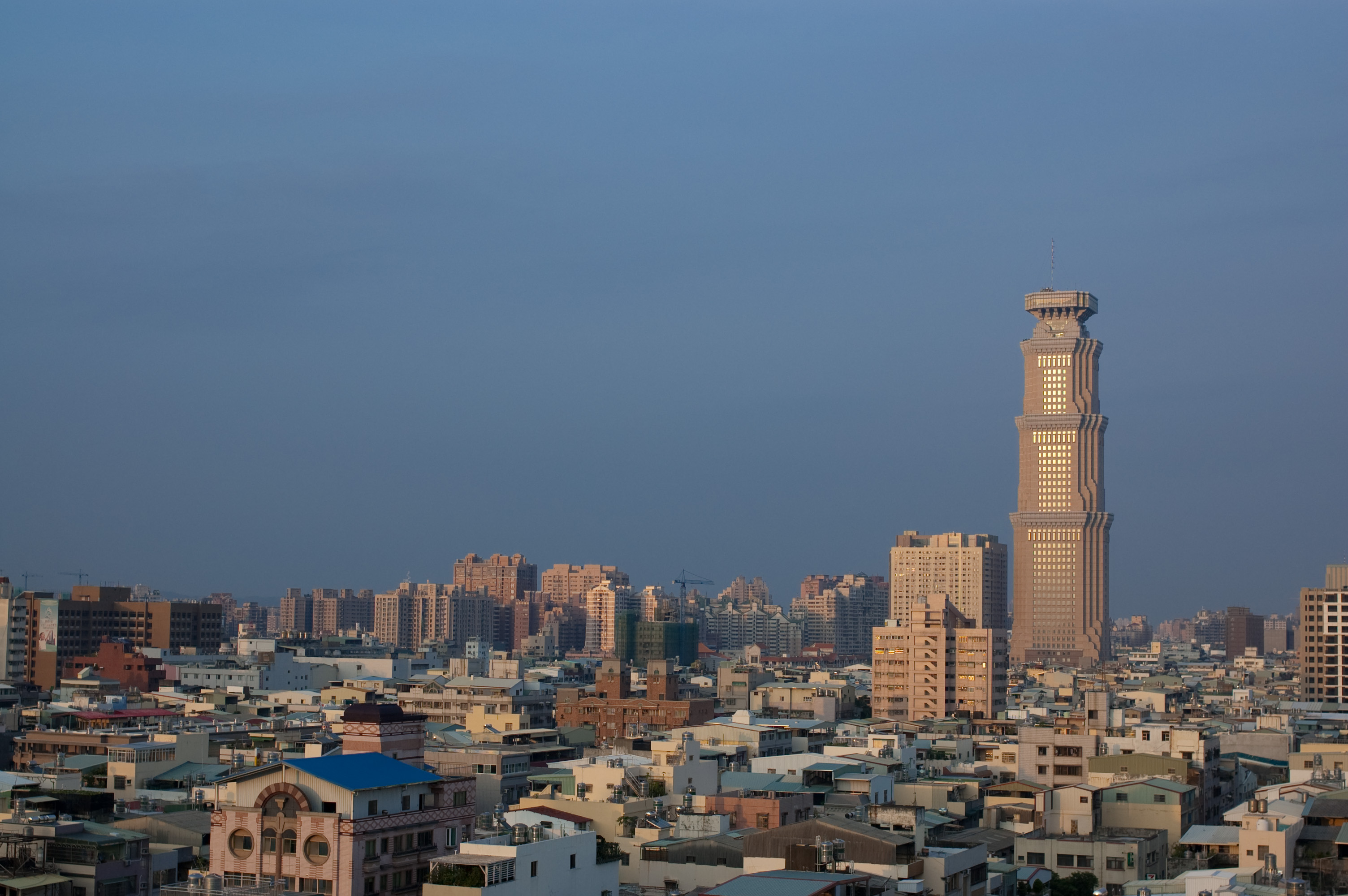 Chang-Gu World Trade Center